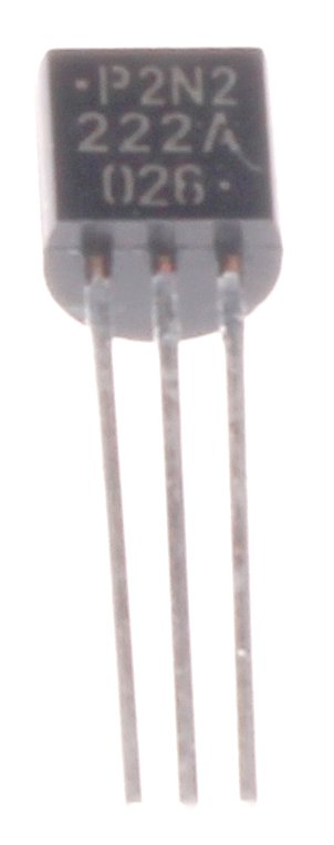 P2N2222A Transistor.